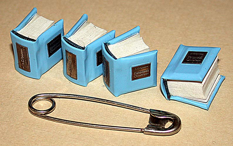 Miniature books, including Pushkin and Eugene Onegin